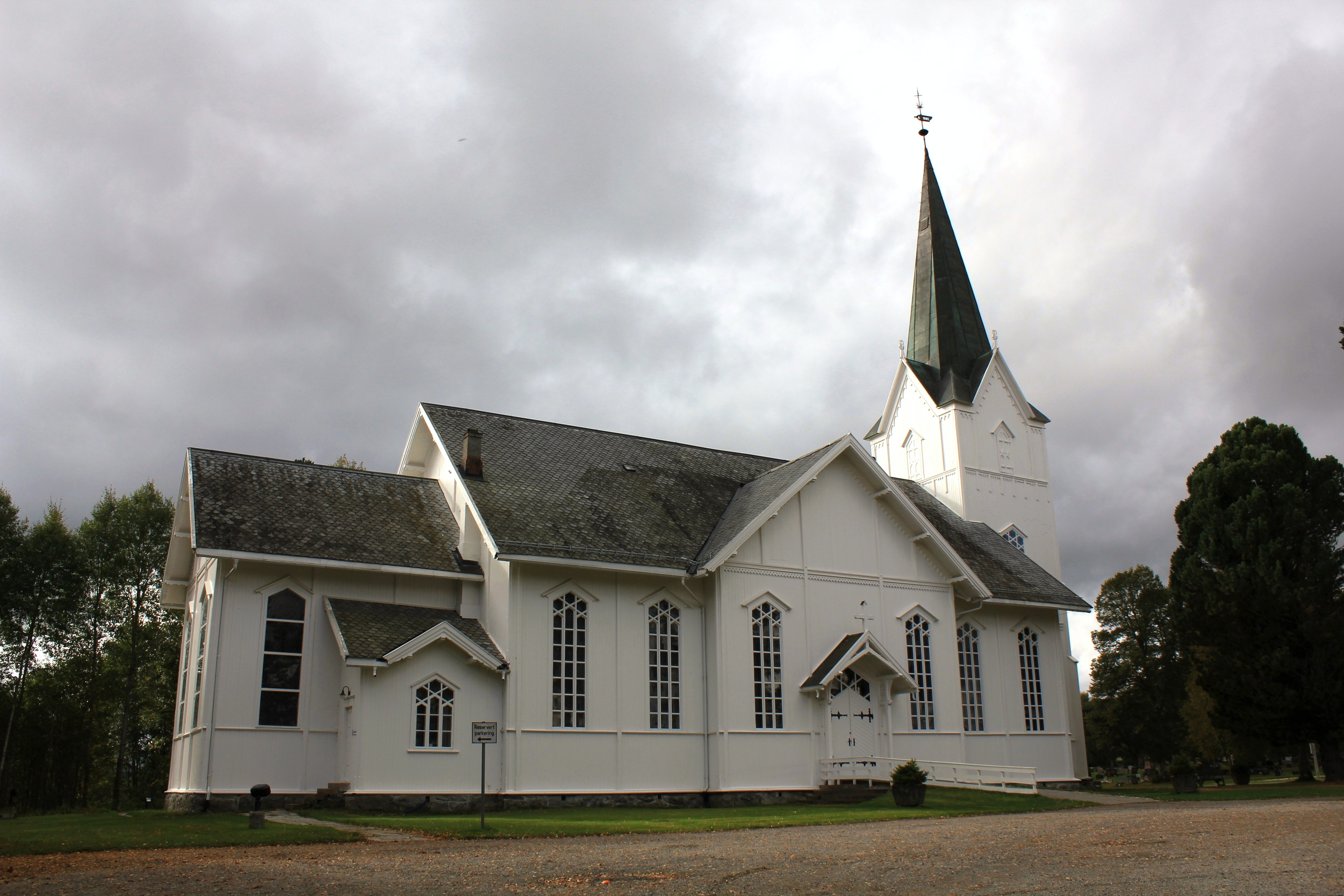 Aurskog Church in Akershus, Norway.